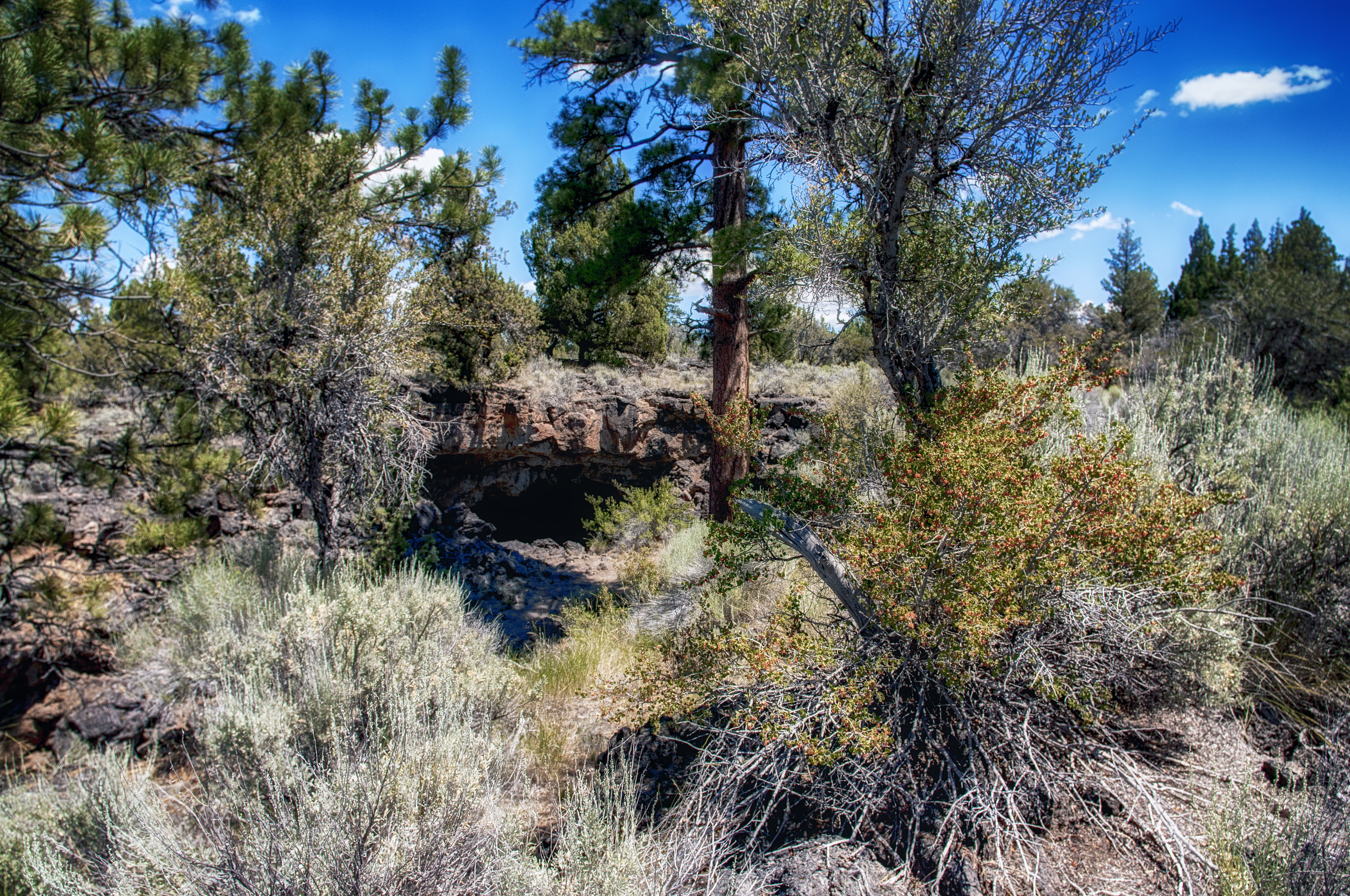 A lava tube 30 feet high, 50 feet wide, and 1/4 mile long, Derrick Cave was named for H.E. Derrick, a pioneer rancher in the Devils Garden area. Derrick Cave developed just south of the main vent for the Devils Garden Flows and was the route of most of the lava which spread south from the vent. In the 1960s, Derrick Cave was designated a nuclear fallout shelter with supplies of food and water. Plan your visit and learn more online at Derrick Cave.